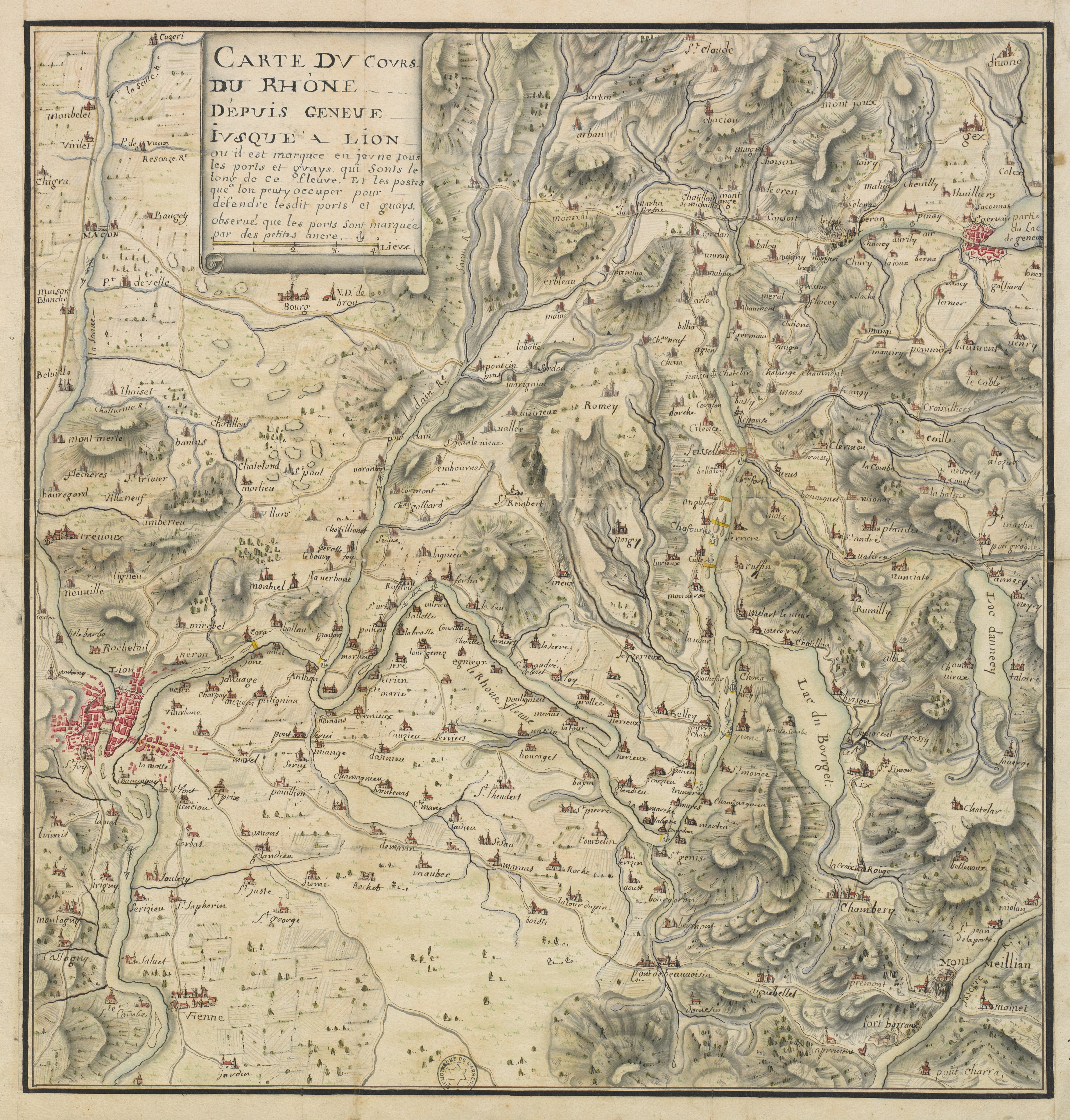 Map of the Rhône river from Geneva up to Lyon, where ports and fords along the river are marked in yellow. Also included the posts which can be used to guard these ports and fords. See that the ports are shown by small anchors.